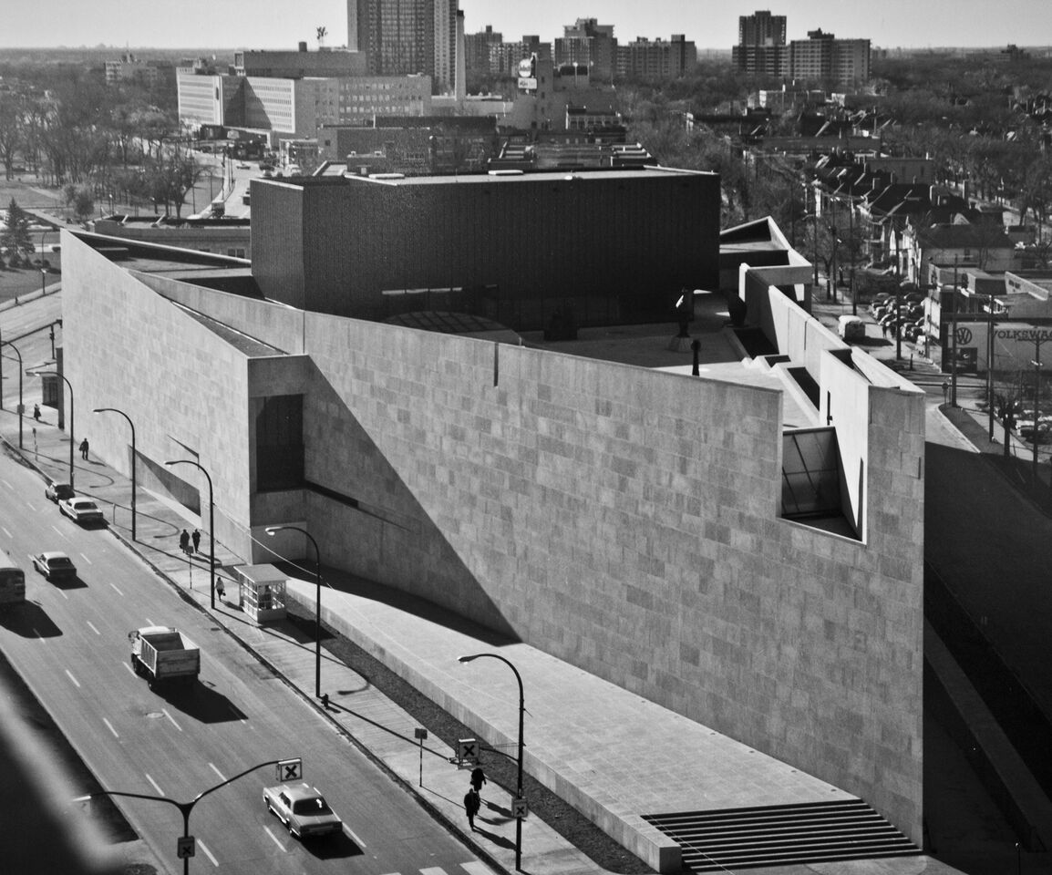 Aerial photograph of Winnipeg Art Gallery